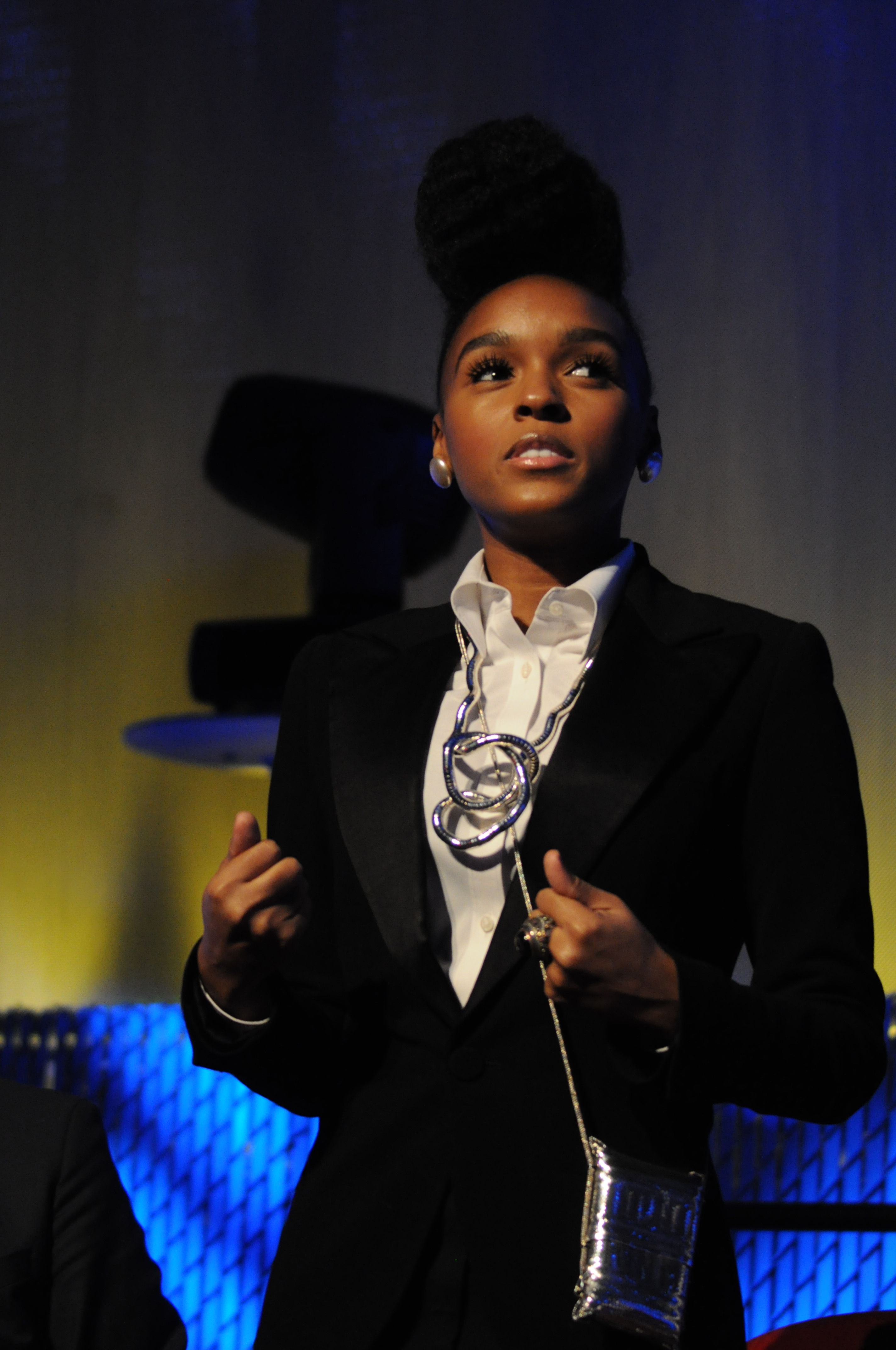 Janelle Monáe on the keynote panel of the 2010 Pop Conference, EMPSFM, Seattle, Washington.